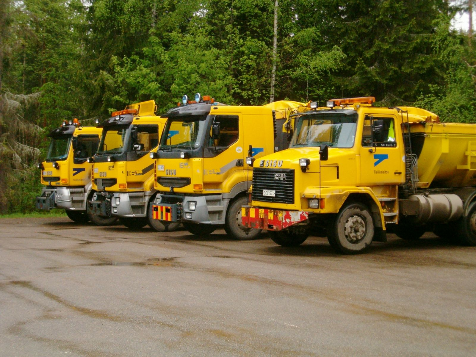 Sisu trucks in Finland